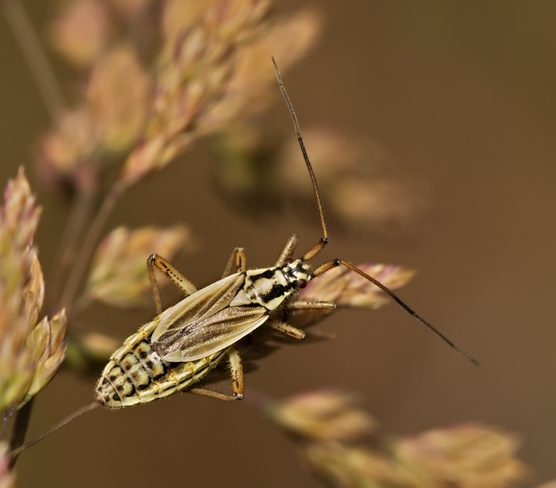 female Leptopterna dolabrata from Nettersheim, Germany.